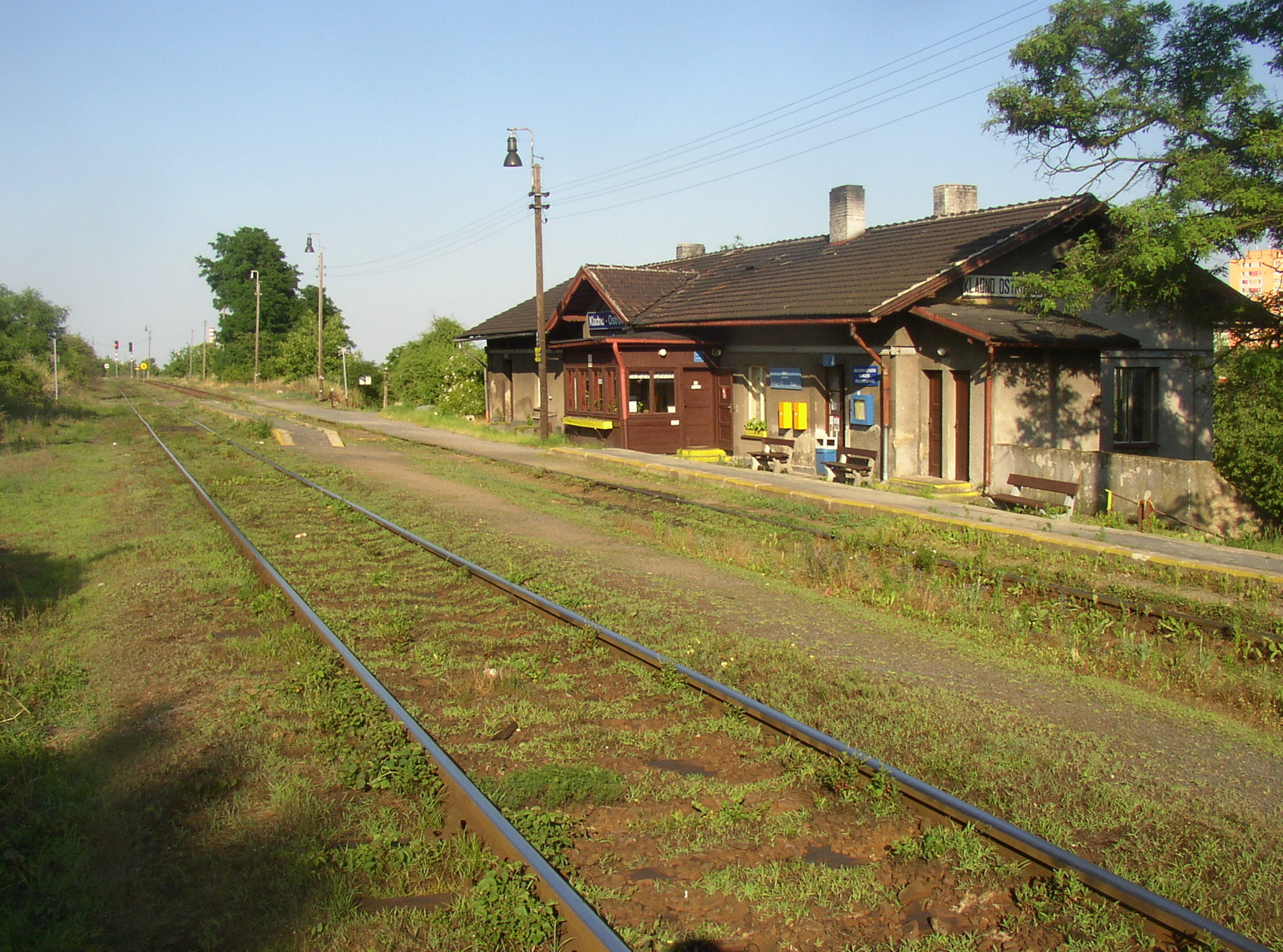 Kladno-Ostrovec railway station on line 093 Kralupy nad Vltavou - Kladno. A view towards east, in Kralupy direction.